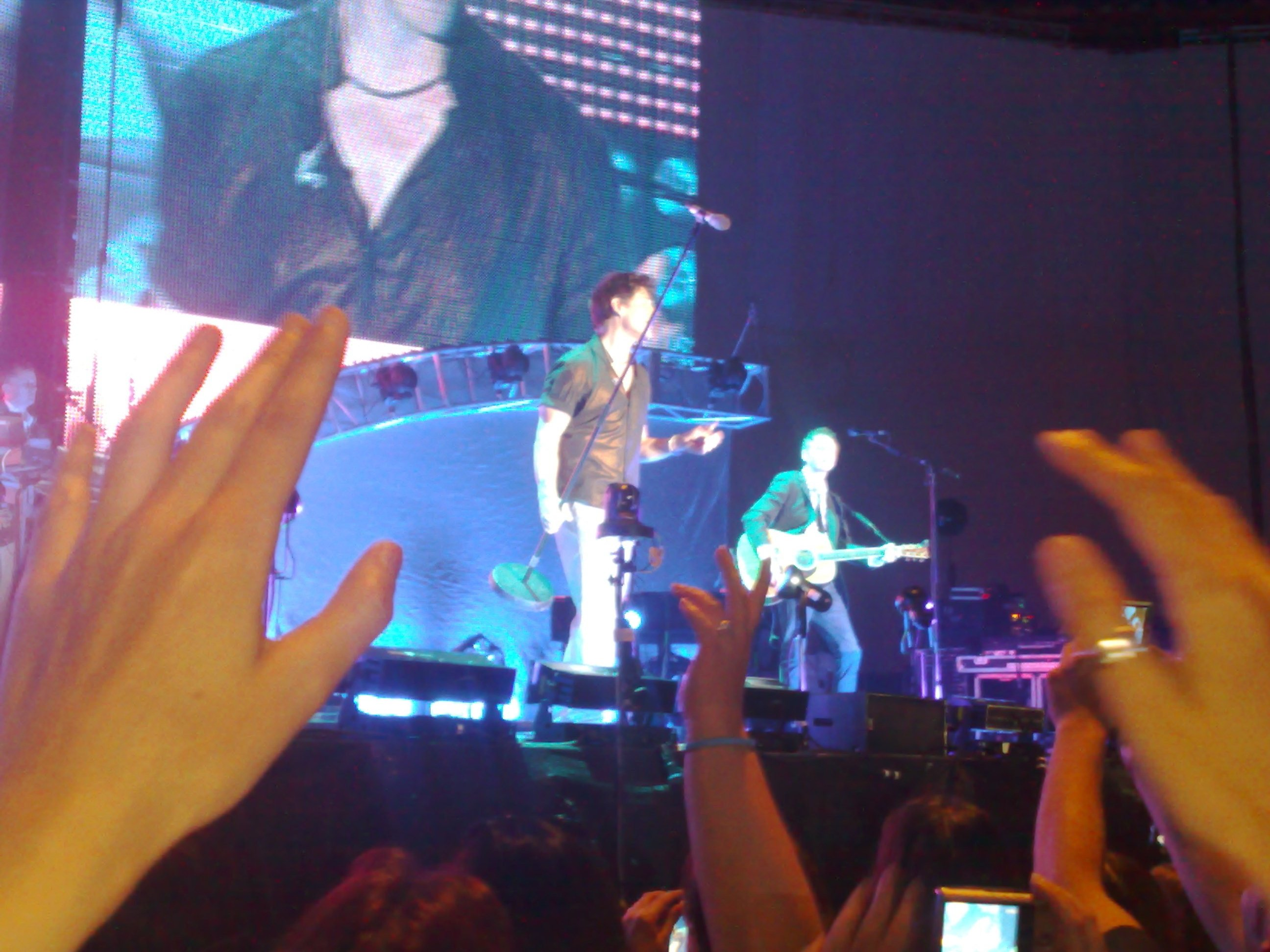 a-ha in Madrid, Spain (2010).